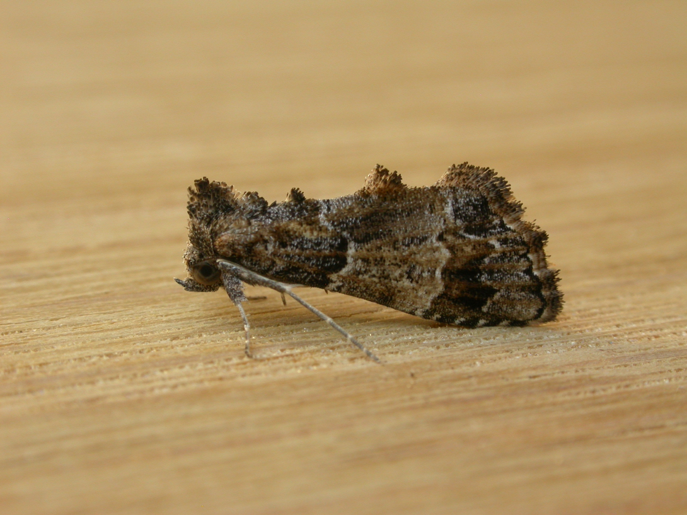 Arrade destituta (Walker, 1865), to MV light, Aranda, ACT, 3/4 November 2008